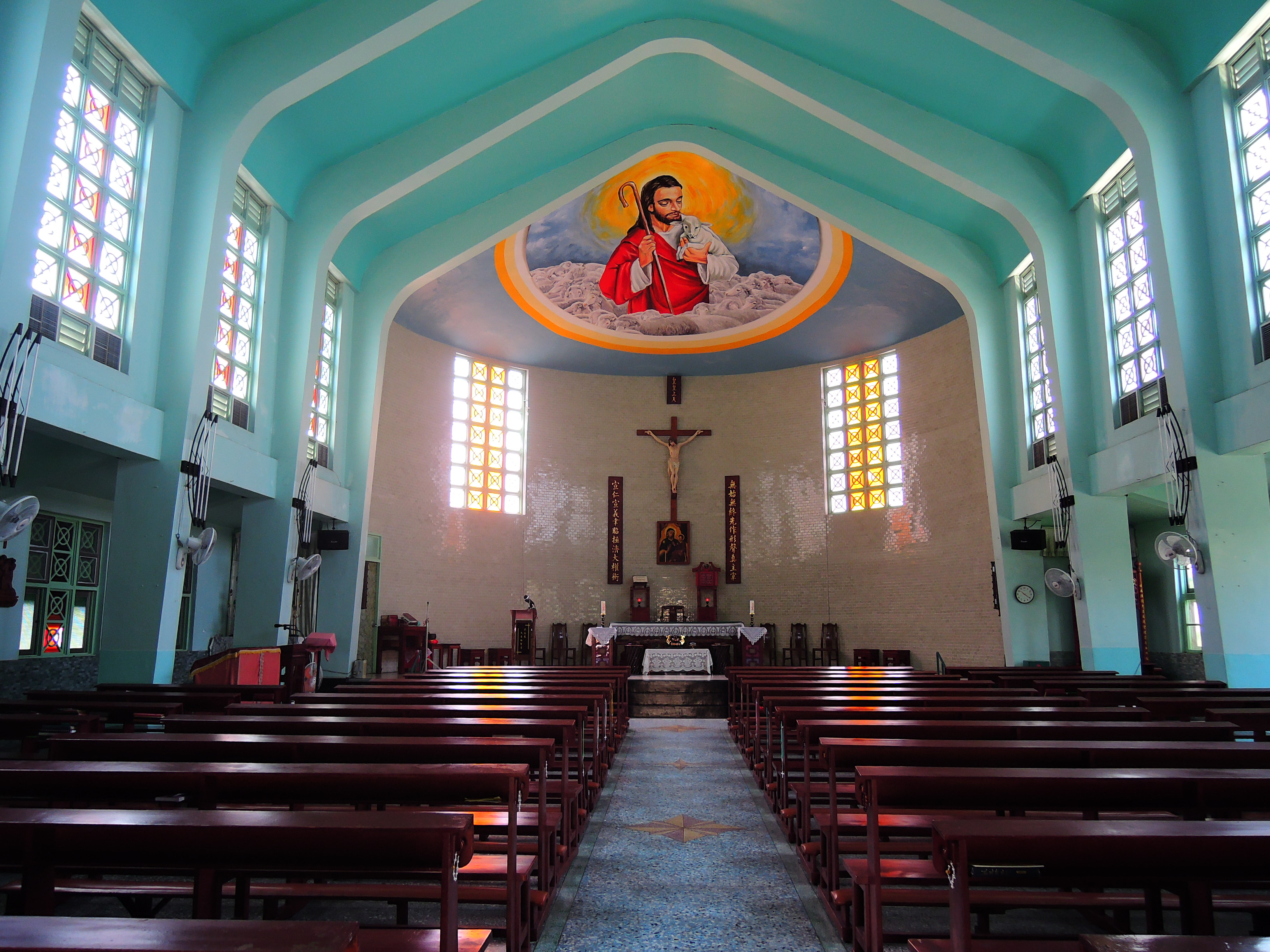 Catholic Church in Magong, Penghu